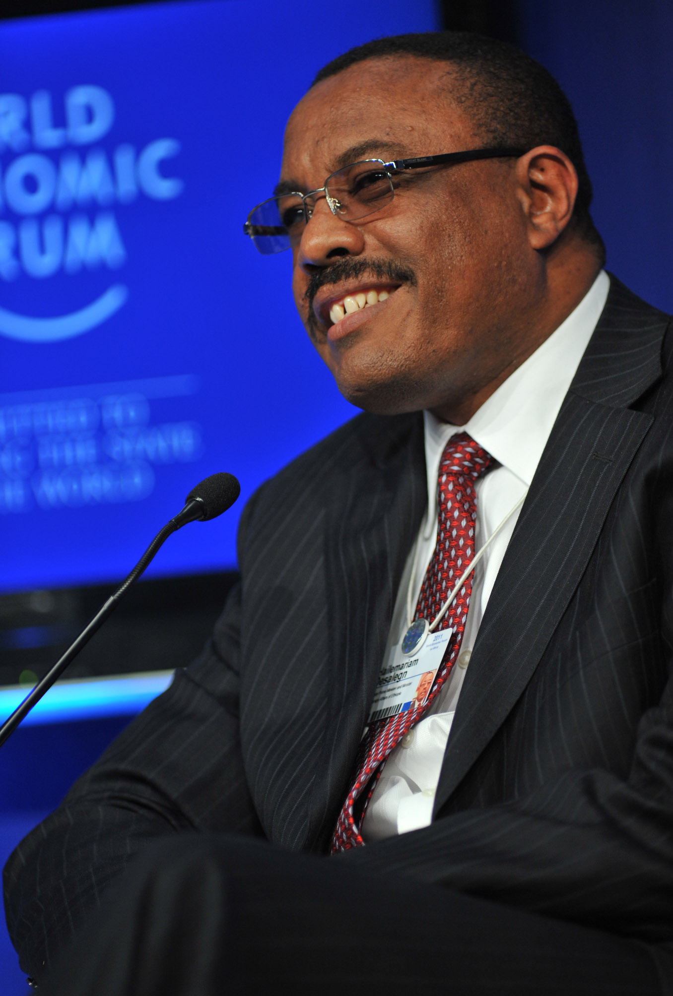 CAPE TOWN\SOUTH AFRICA, 06MAY11 – Hailemariam Desalegn, Deputy Prime Minister and Minister of Foreign Affiars of Ethiopia, during the Closing Plenary: Africa's Next Chapter at the World Economic Forum on Africa 2011 held in Cape Town, South Africa, 4–6 May 2011. Copyright (cc-by-sa) © World Economic Forum ( Eric Miller